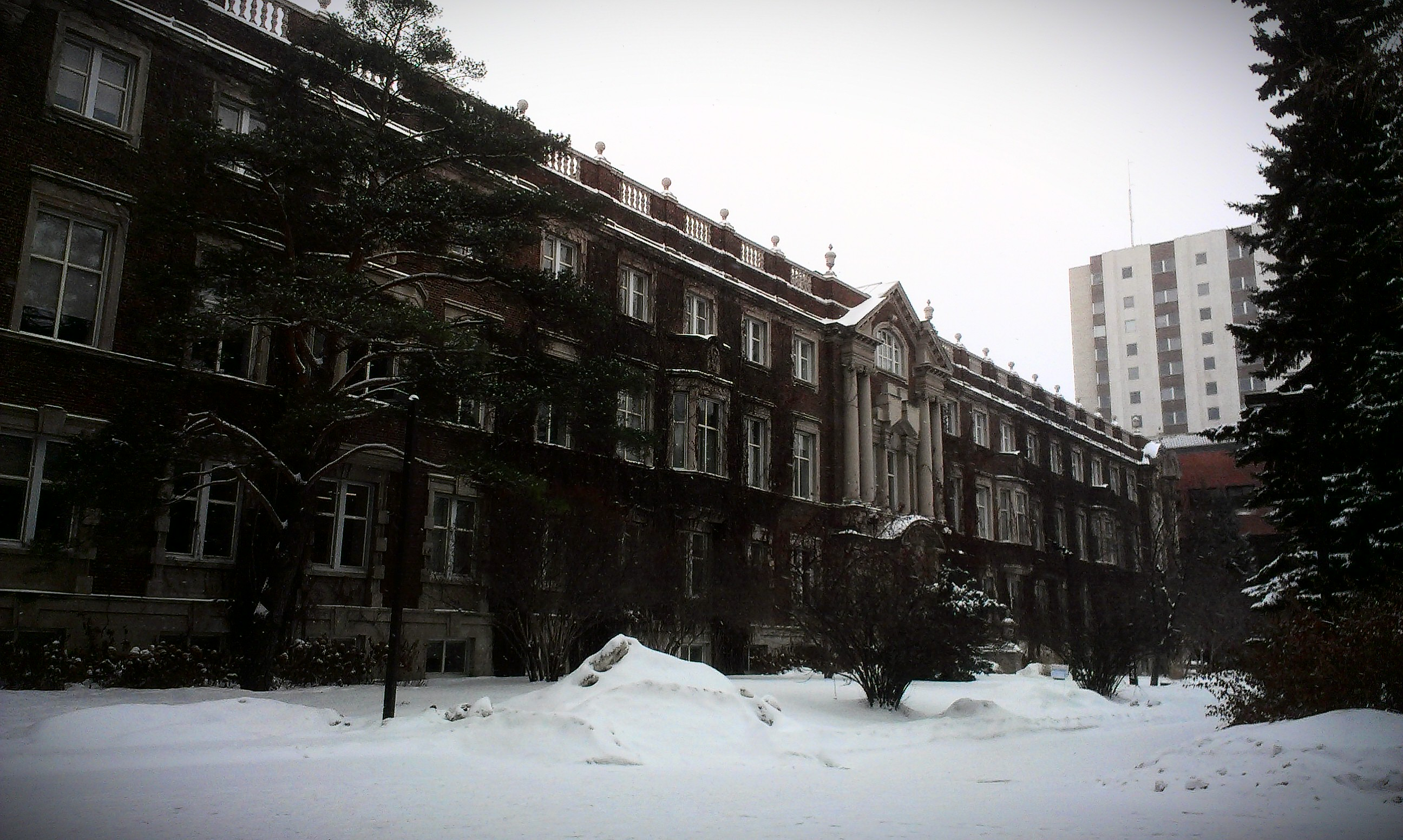 A shot of the Old Arts building on the University of Alberta campus in wintertime.